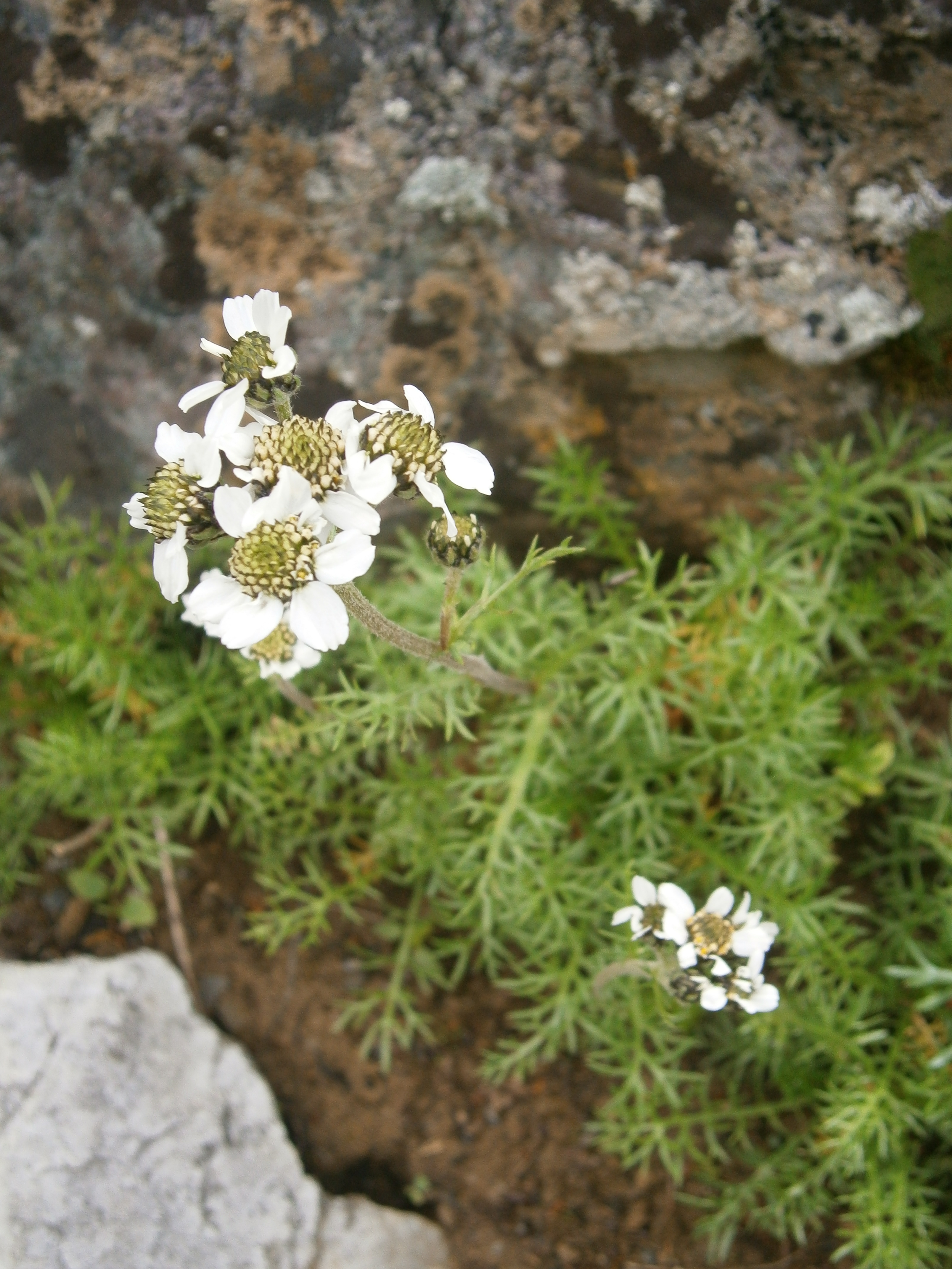 Achillea atrata in the Jardin Botanique Alpin du Lautaret